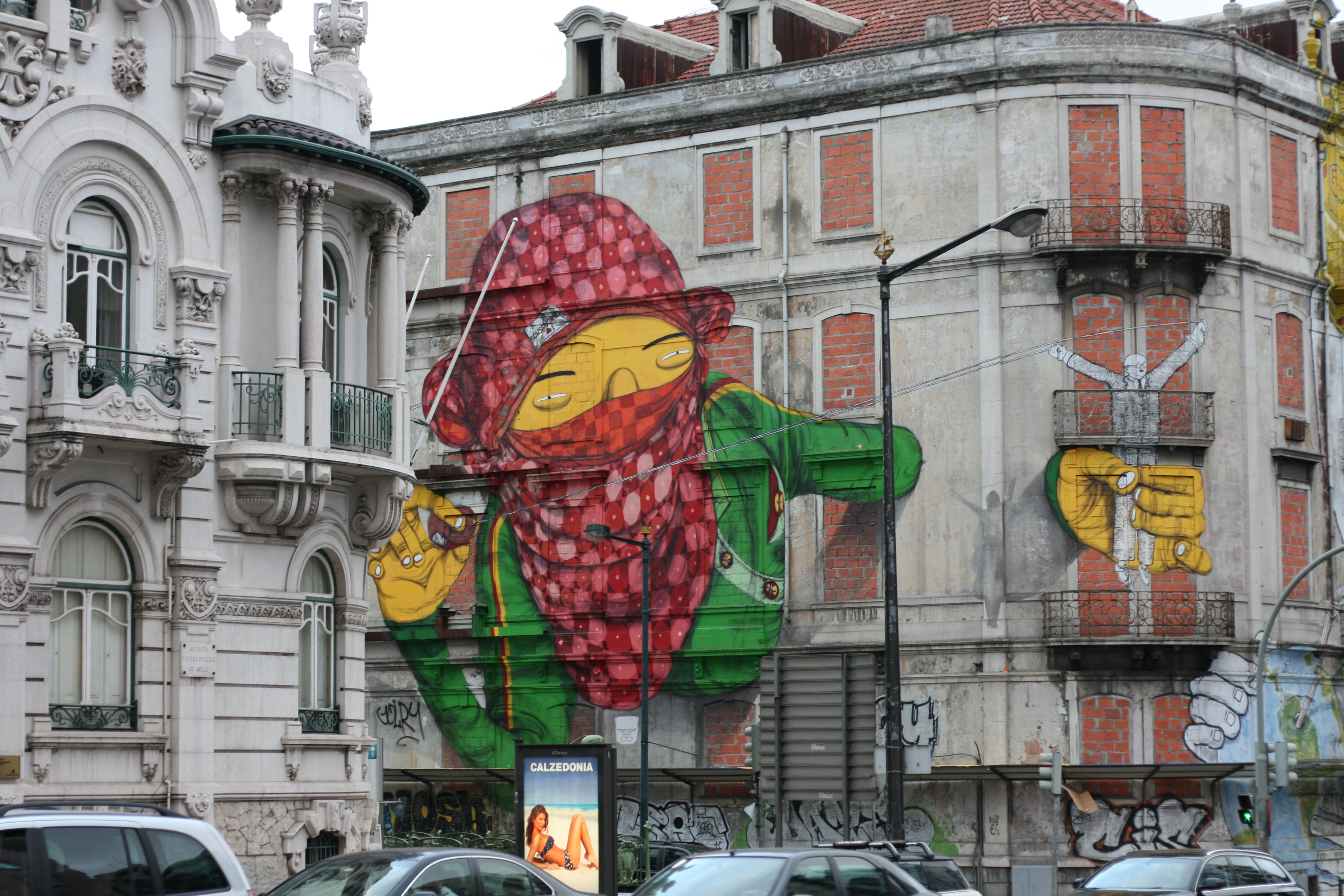 mural in Lisboa portugal